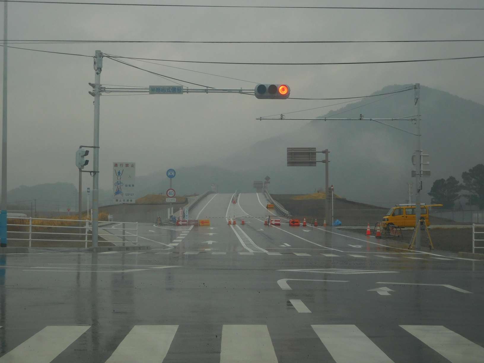 Higashi-Kyushu Expressway - Nichinan-Togo Interchange (Togo Area, Nichinan City, Miyazaki Prefecture, Japan)